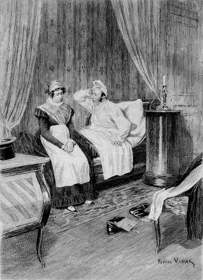 Title page of Honoré de Balzac's The Old Maid, (1836).